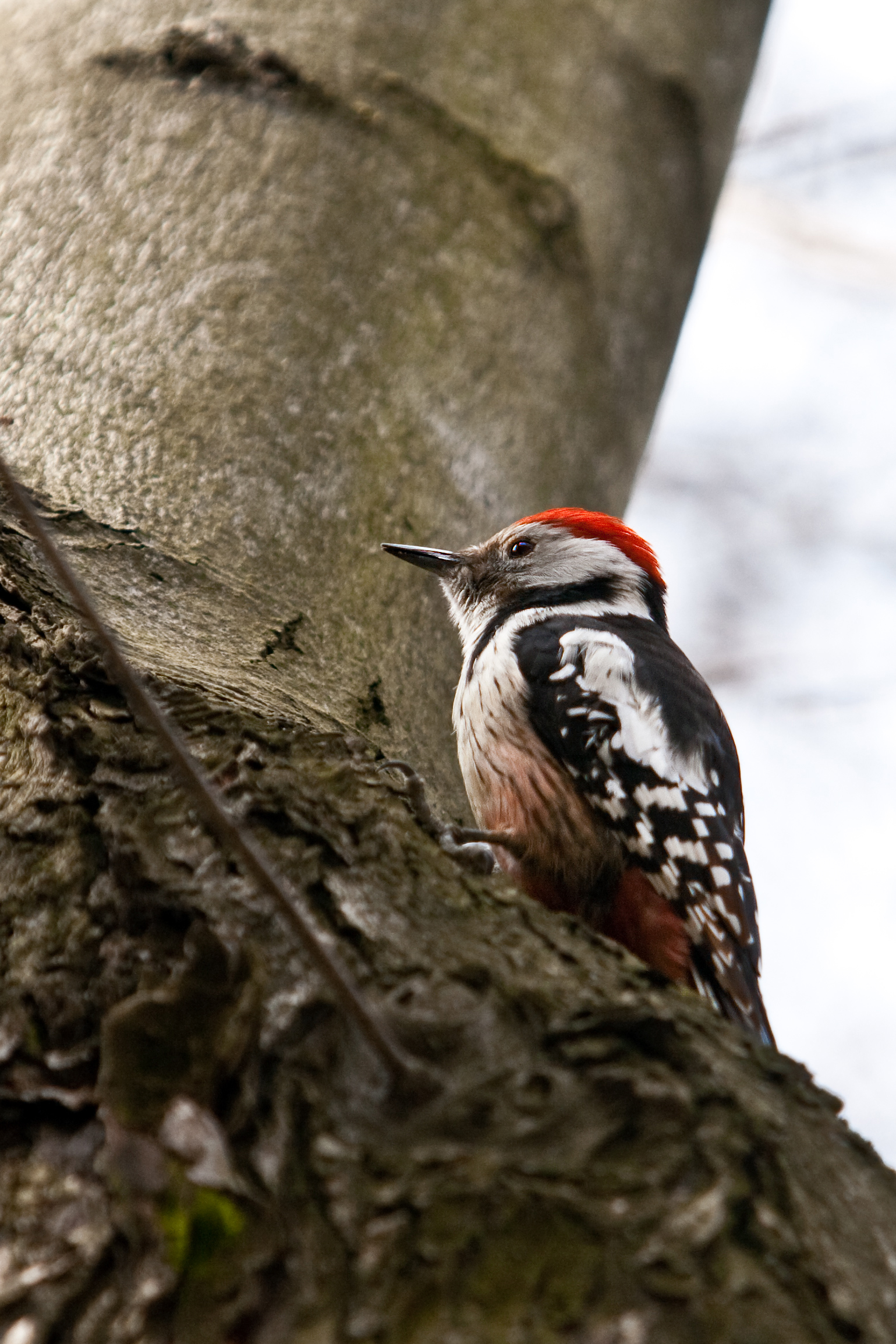 Middle Spotted Woodpecker Dendrocopos medius, Sviatoshynskyi, Ukraine.